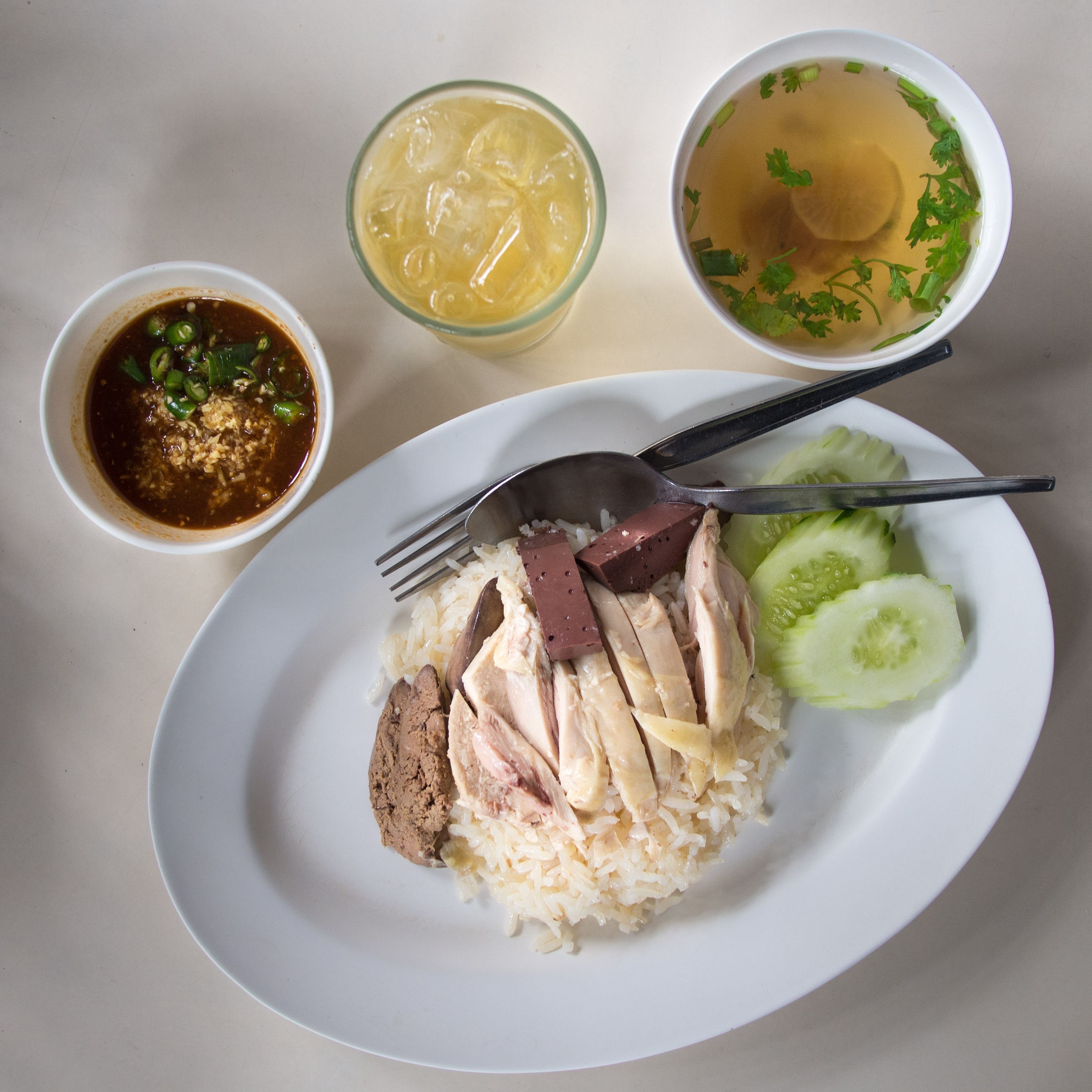 'Khao man kai meal: top left is nam chim tauchiao (a dipping sauce made with fermented soy beans), top middle is a glass of very light ice tea, top right is nam kaeng hua chai thao (Chinese radish soup). The plate with chicken meat and rice also contains a slice of chicken liver, a few blocks of blood tofu, and some cucumber.